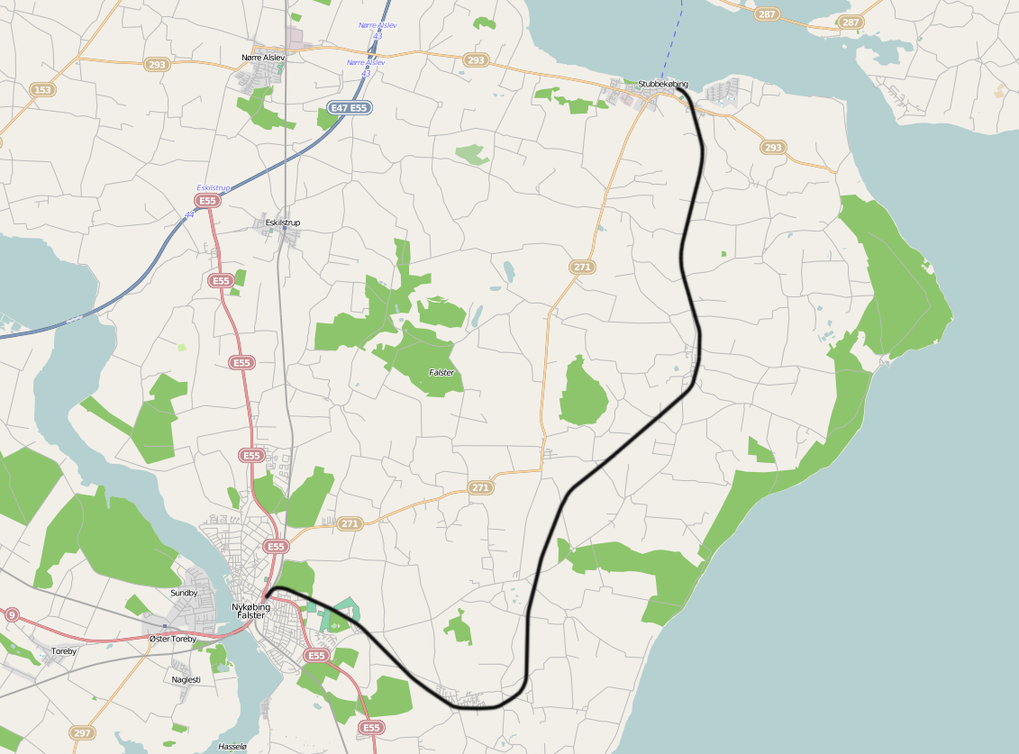 Railway line Stubbekøbing - Nykøbing Falster